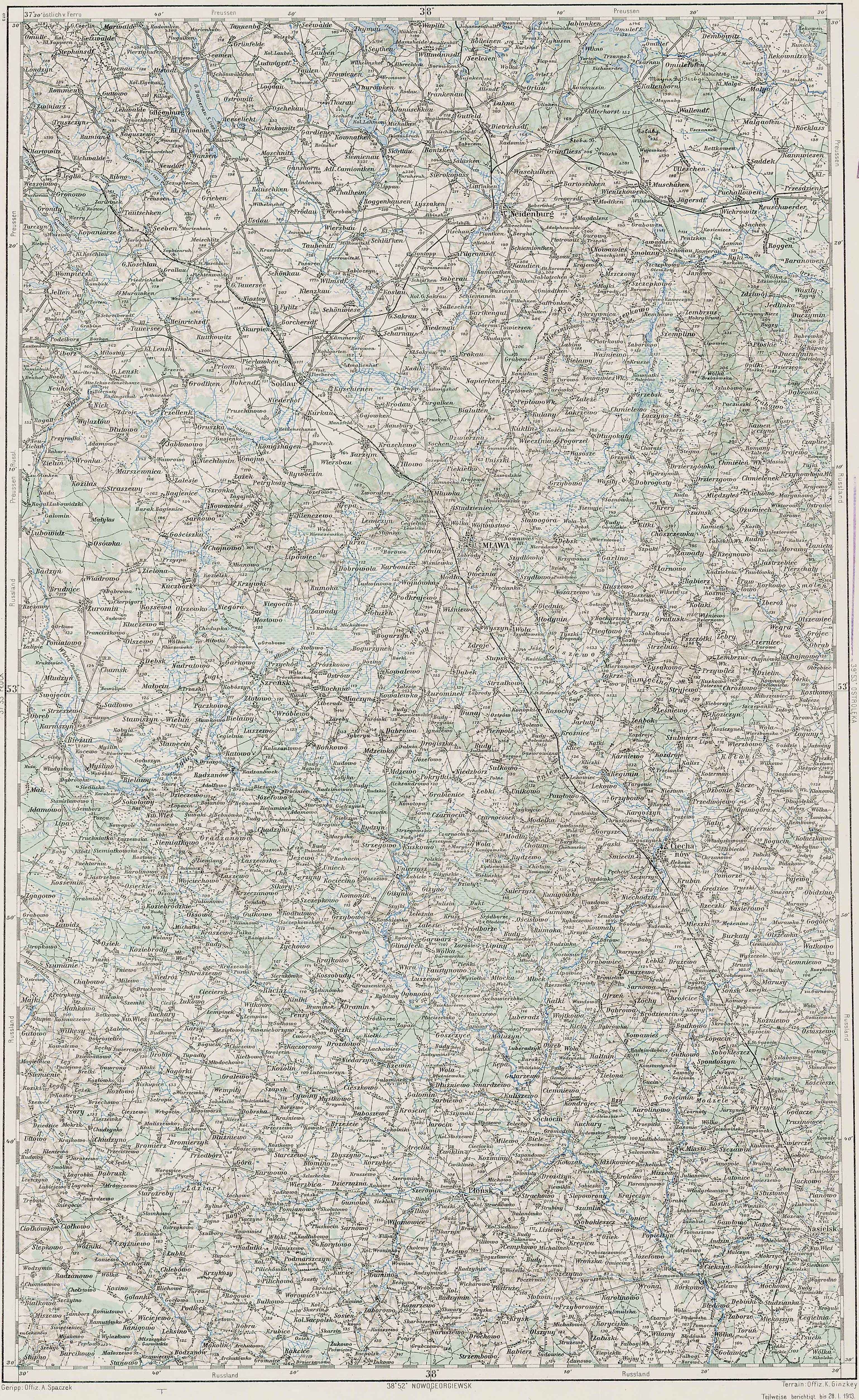 3rd Military Mapping Survey of Austria-Hungary - Mlawa